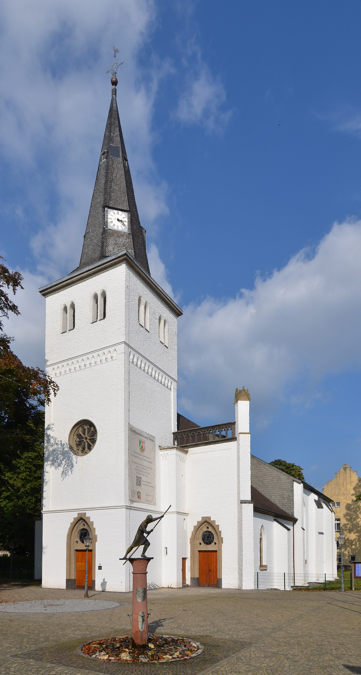 Rheinberg (North Rhine-Westphalia, Germany) – district Orsoy – Protestant Church This image shows a heritage building in Germany, located in the North Rhine-Westphalian city Rheinberg (no. 36). This photograph was taken with a Nikon D7000